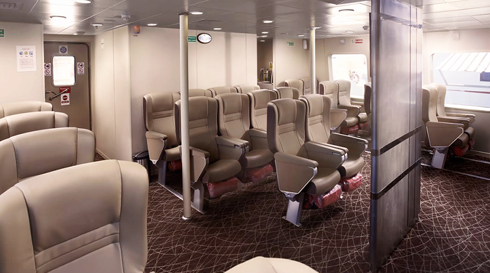 Business class